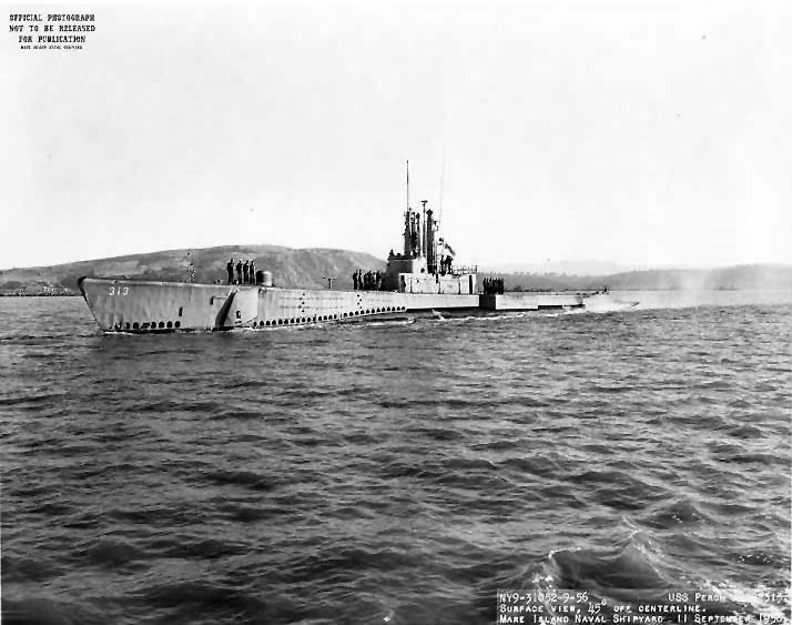 USS_Perch; Perch (ASSP-313), surface view, 45 degrees off centerline, at Mare Island Naval Shipyard, Vallejo, CA., 11 Sept. 1956. Courtesy of